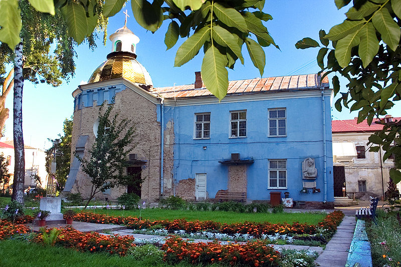 Church of Lutsk Orthodox Fellowship of True Cross